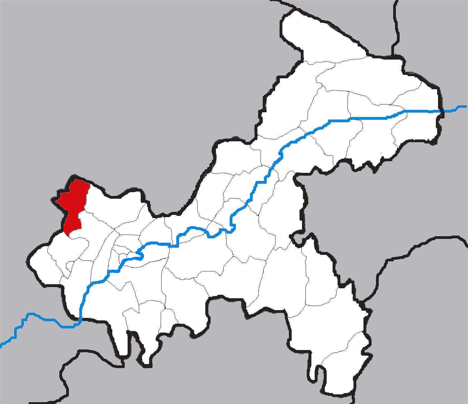 Administration maps of Chongqing, China